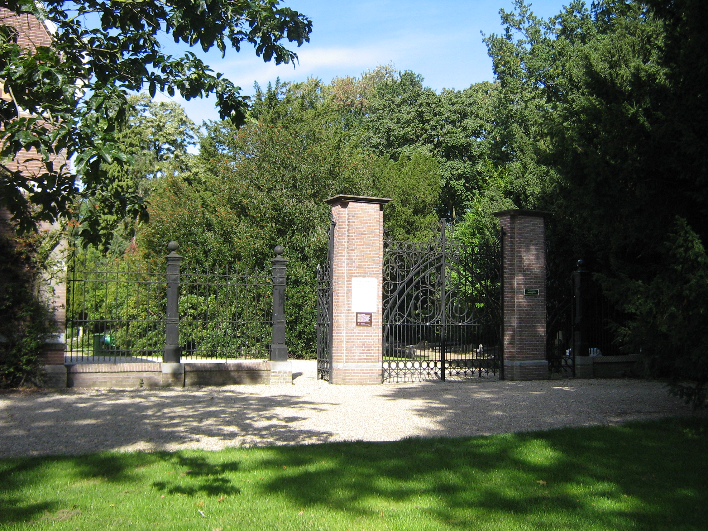 Gate of the cemetery at 12 Bosdrift, Hilversum, the Netherlands. (The building on the left is the reception building. See File:Reception_12_Bosdrift_Hilversum_Netherlands.jpg.) This is a national monument registered as object 522720.